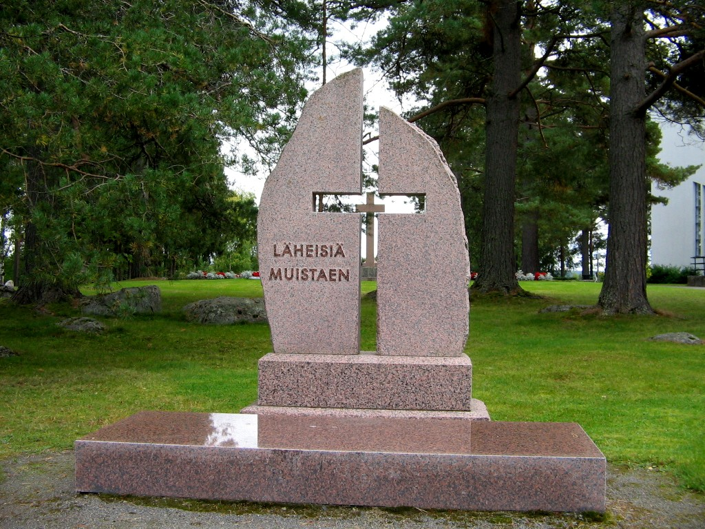 The memory stone in the churchyard of Kannonkoski, Finland